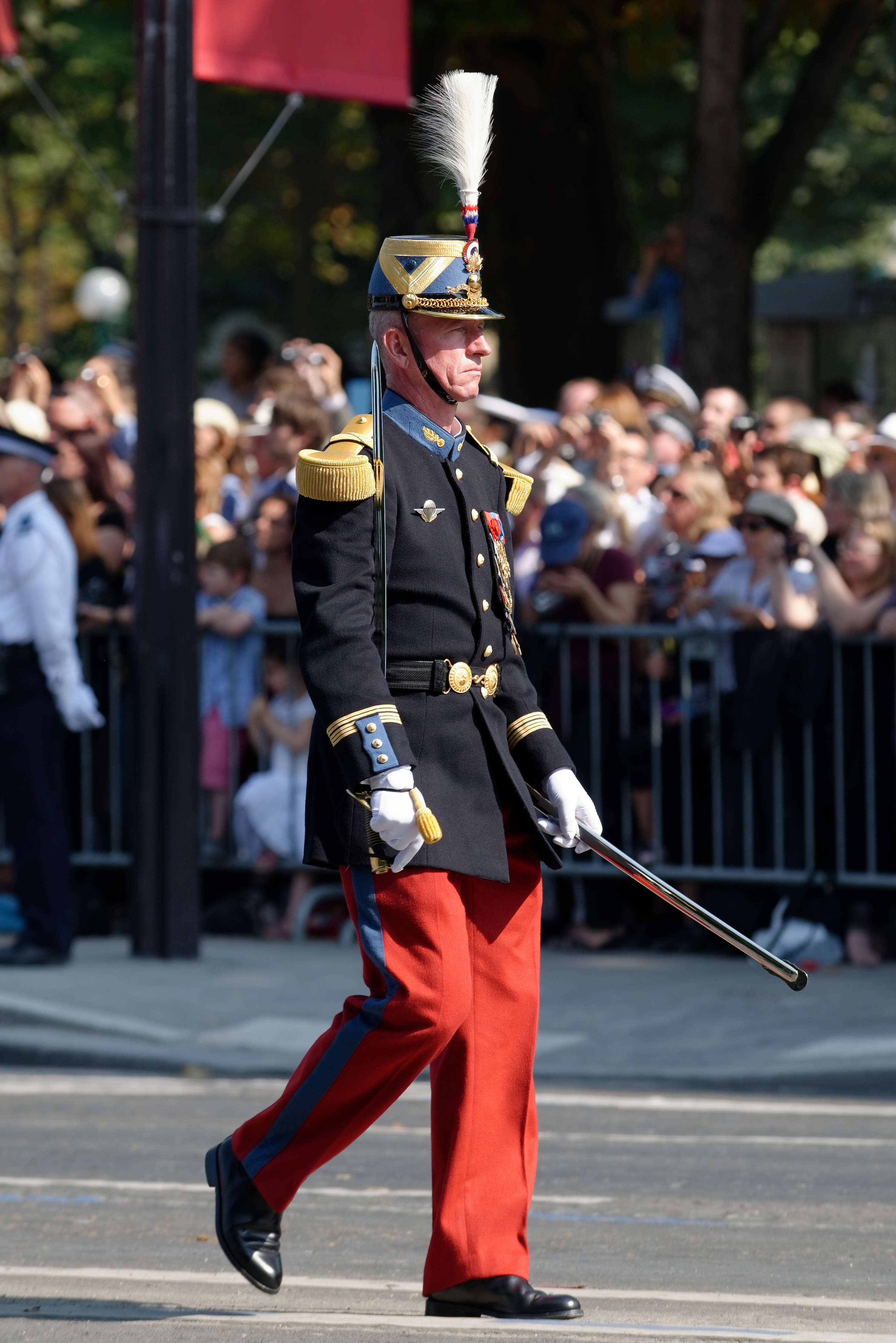 Colonel Francis Chanson leads the military academies of Saint-Cyr Coëtquidan in the Bastille Day 2013 military parade on the Champs-Élysées in Paris.